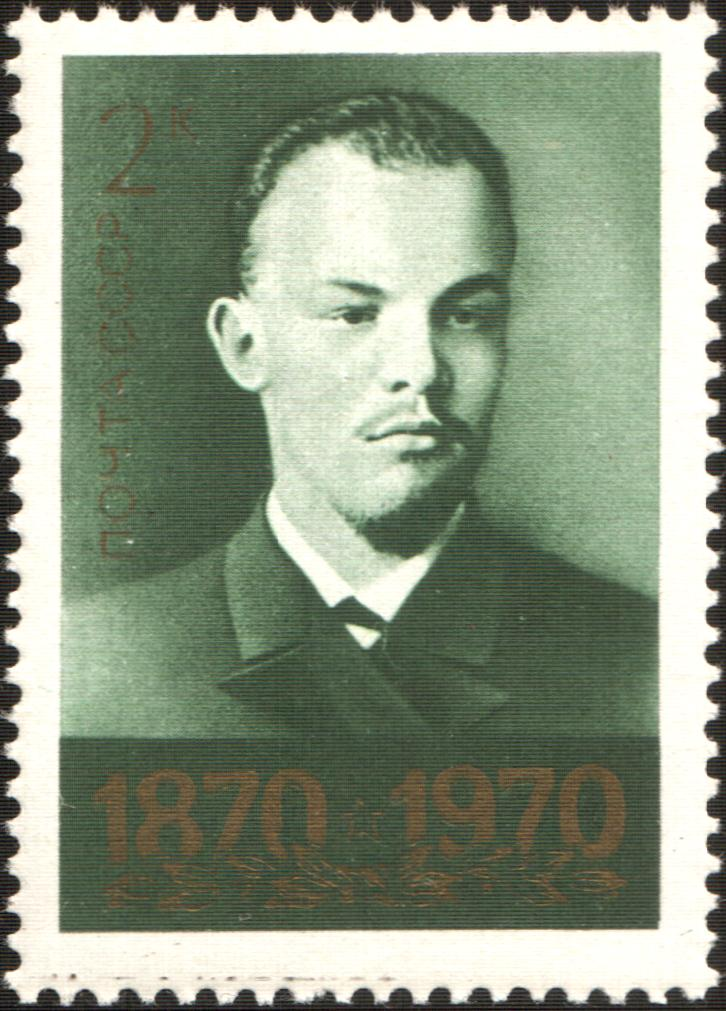 USSR stamp: Lenin, 1891 (Photo by I. A. Sharygin) with 16 labels Children's and Youthful Years (see Lenin, 1891). Series: Centenary of Birth of Vladimir Lenin (1870-1924). Portraits of Lenin